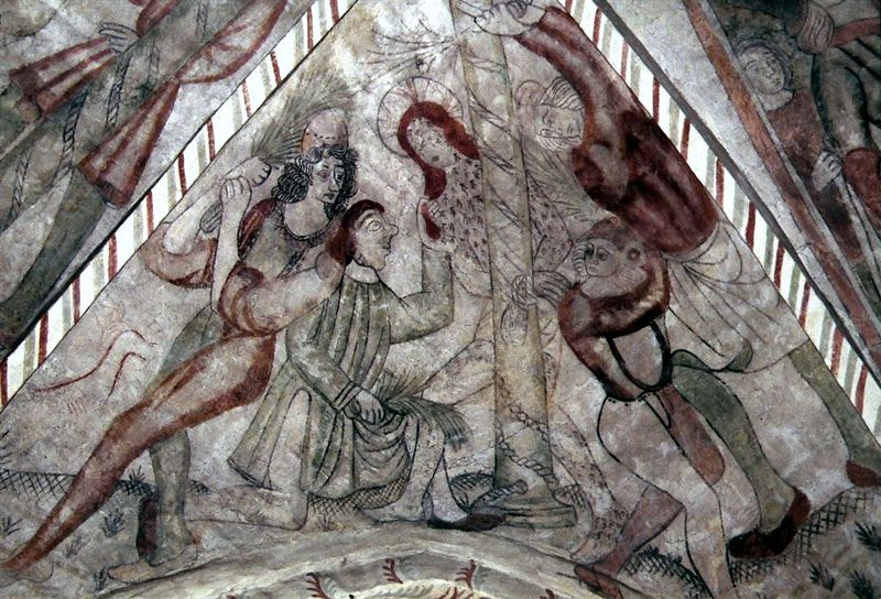 Frescos in Sanderum Kirke.